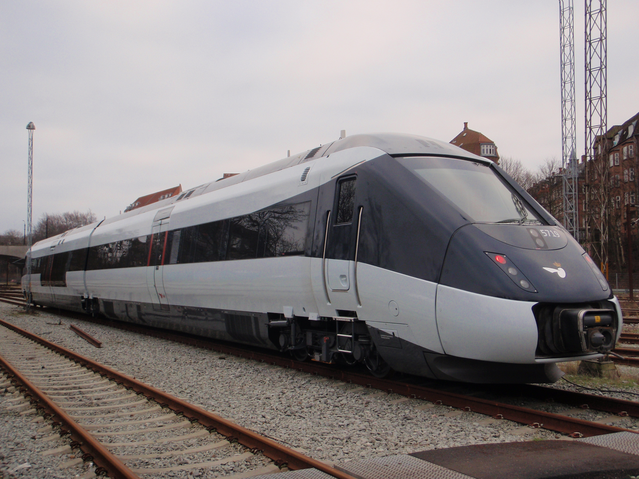 DSB IC2 MP 5719 in Aarhus